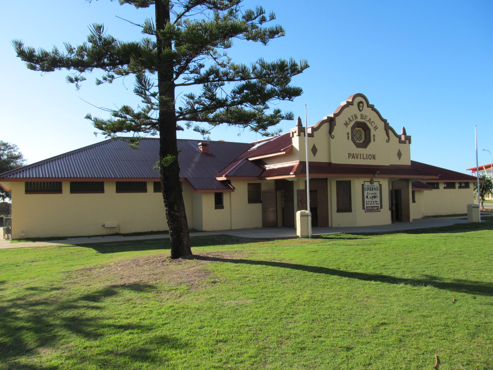 Pavilion at Southport Surf Life Saving Club, Main Beach, Queensland